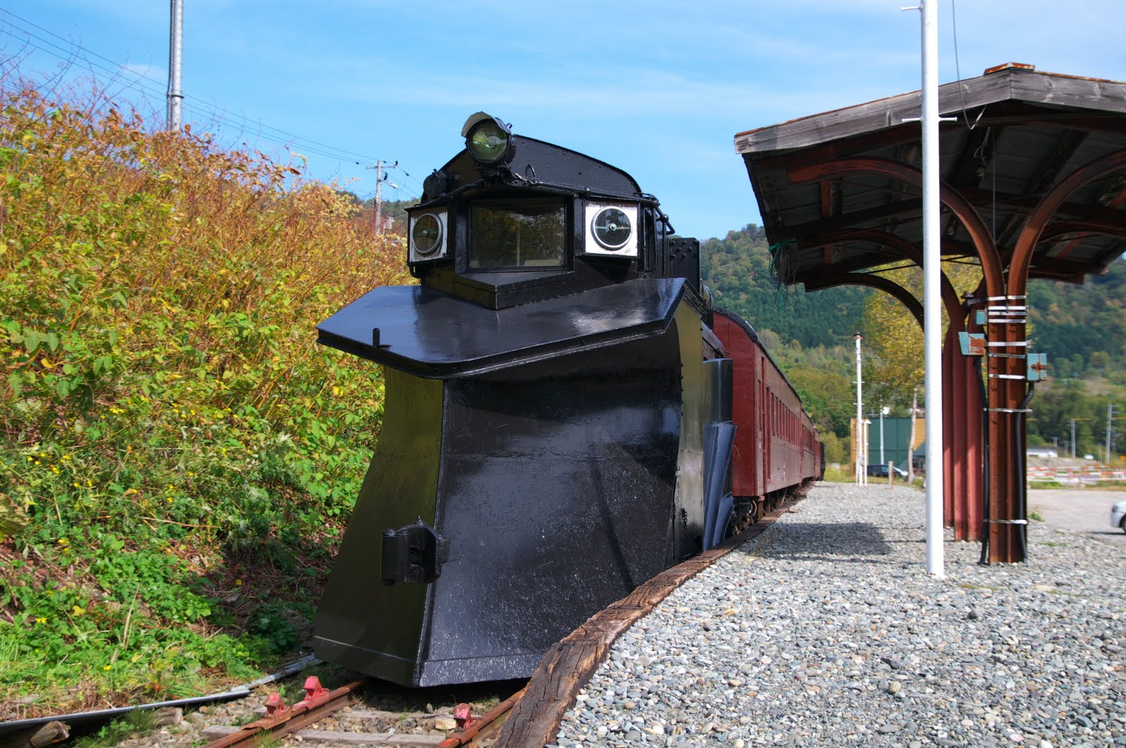 Minami-Ōyūbari Station in Yubari, Hokkaido pref., Japan.